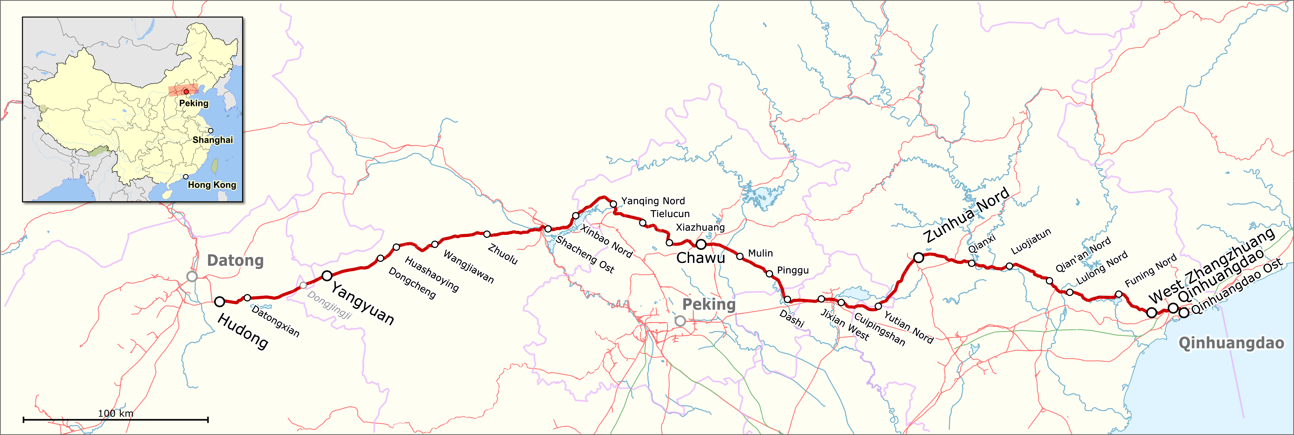 Map showing the Datong–Qinhuangdao Railway